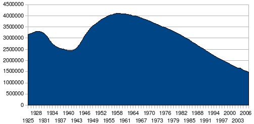 US Masonic Membership since 1924 according to the Masonic Service Association of North America (